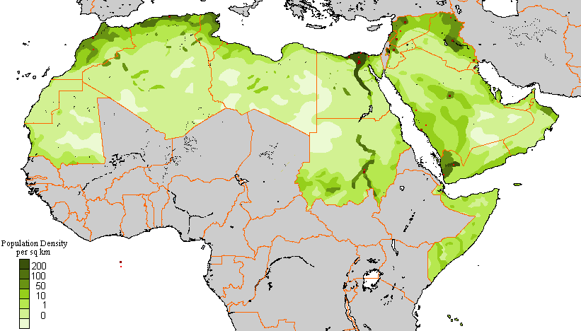 Population Density in the Arab LeagueSource: World Geography Today (Holt, Rinehart and Winston, editioned year 2000)